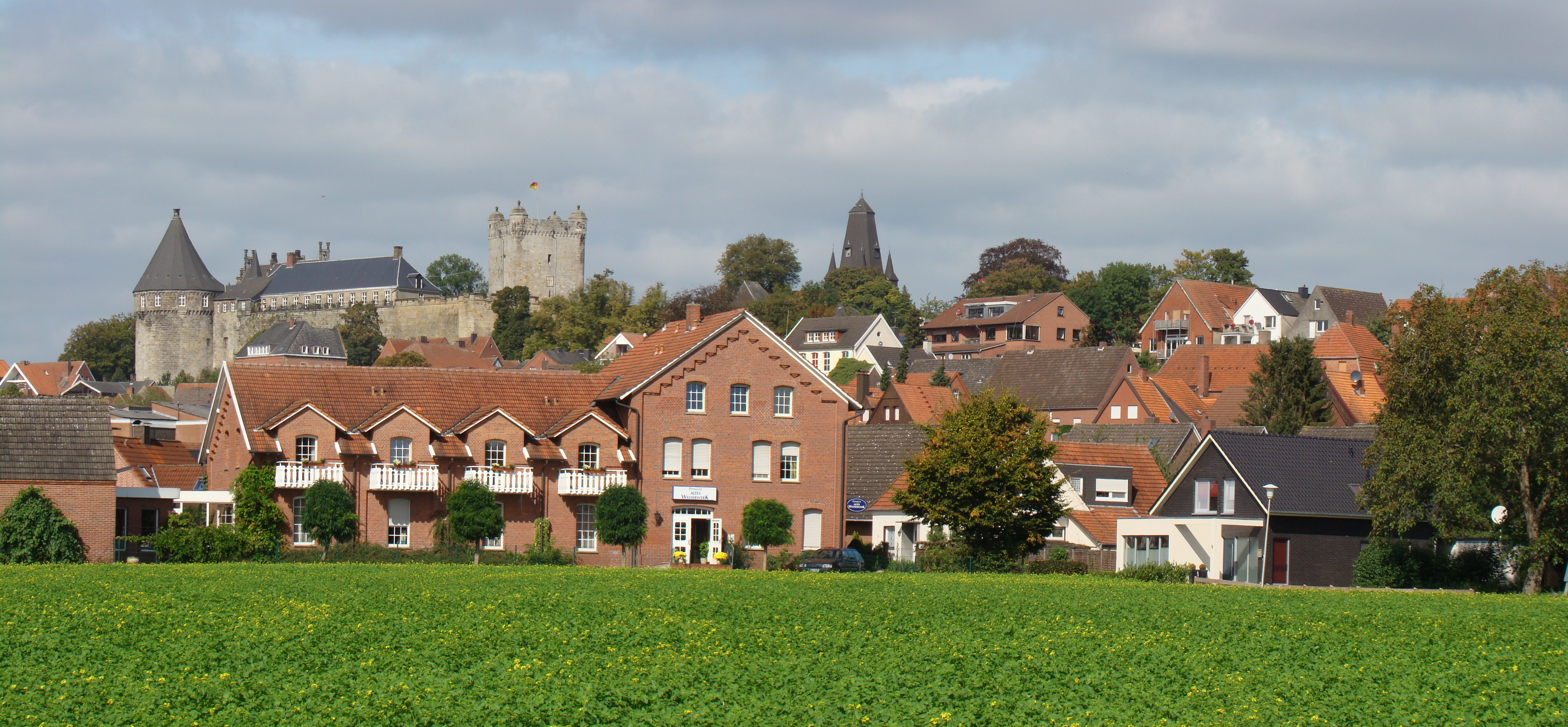 Panorama view on Bad Bentheim (Germany)